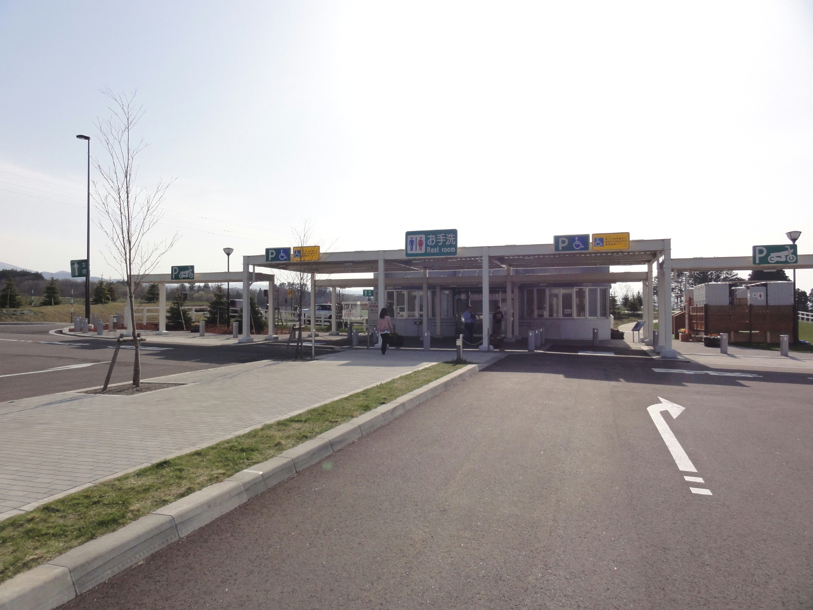 Hokkaidō Expressway Yakumo Parking Area